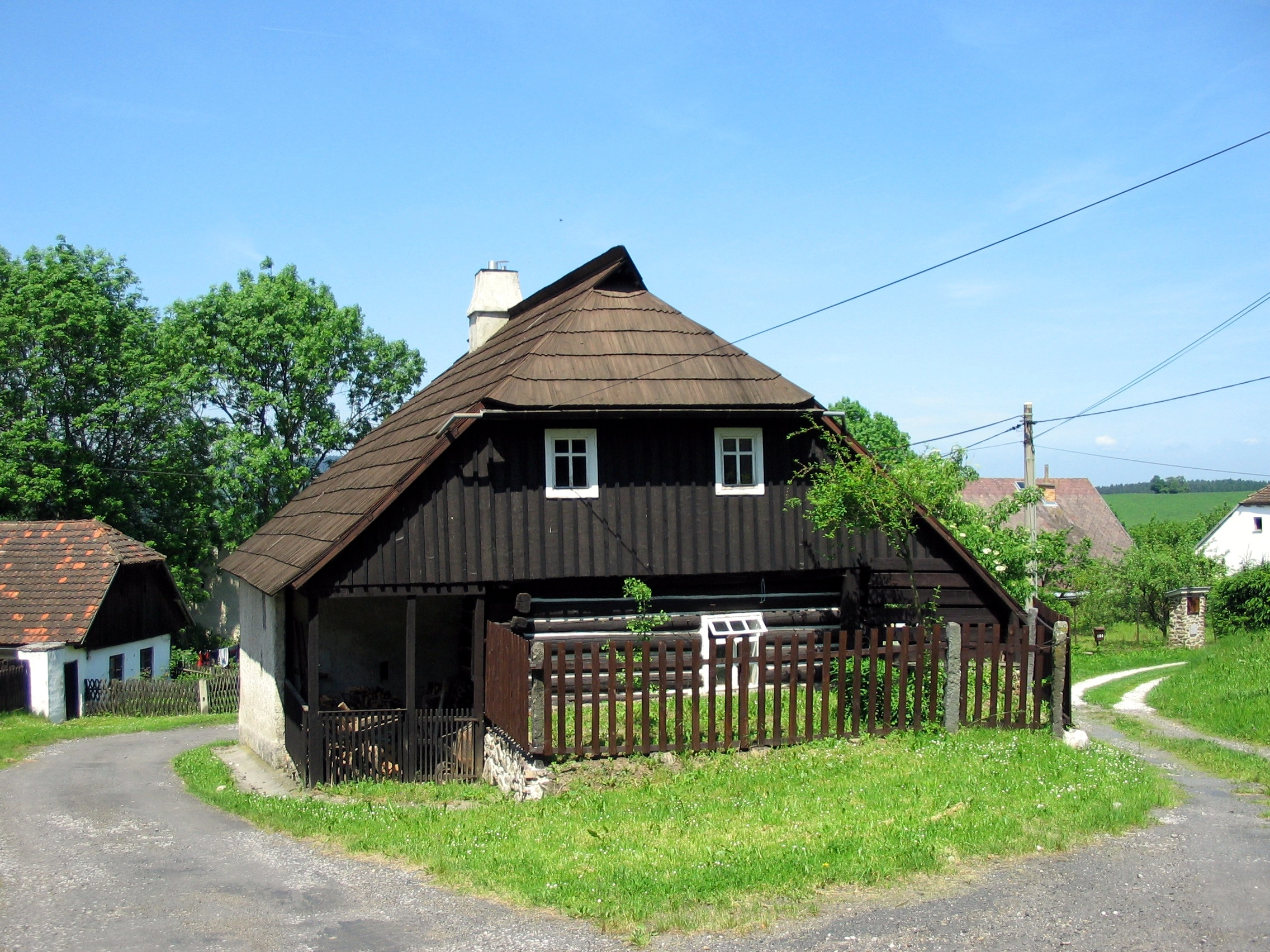 Log cottage in Strašín, Klatovy District, Czech Republic